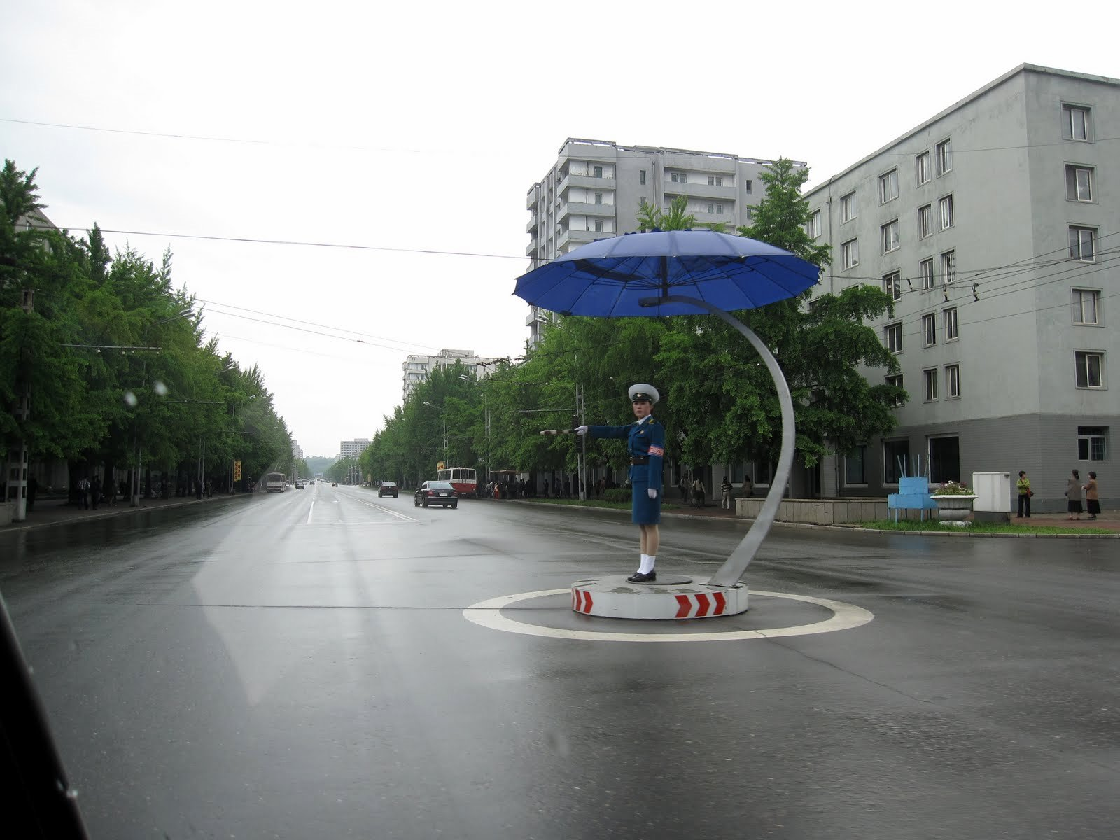 Pyongyang's traffic ladies put on quite the show [1] [2]